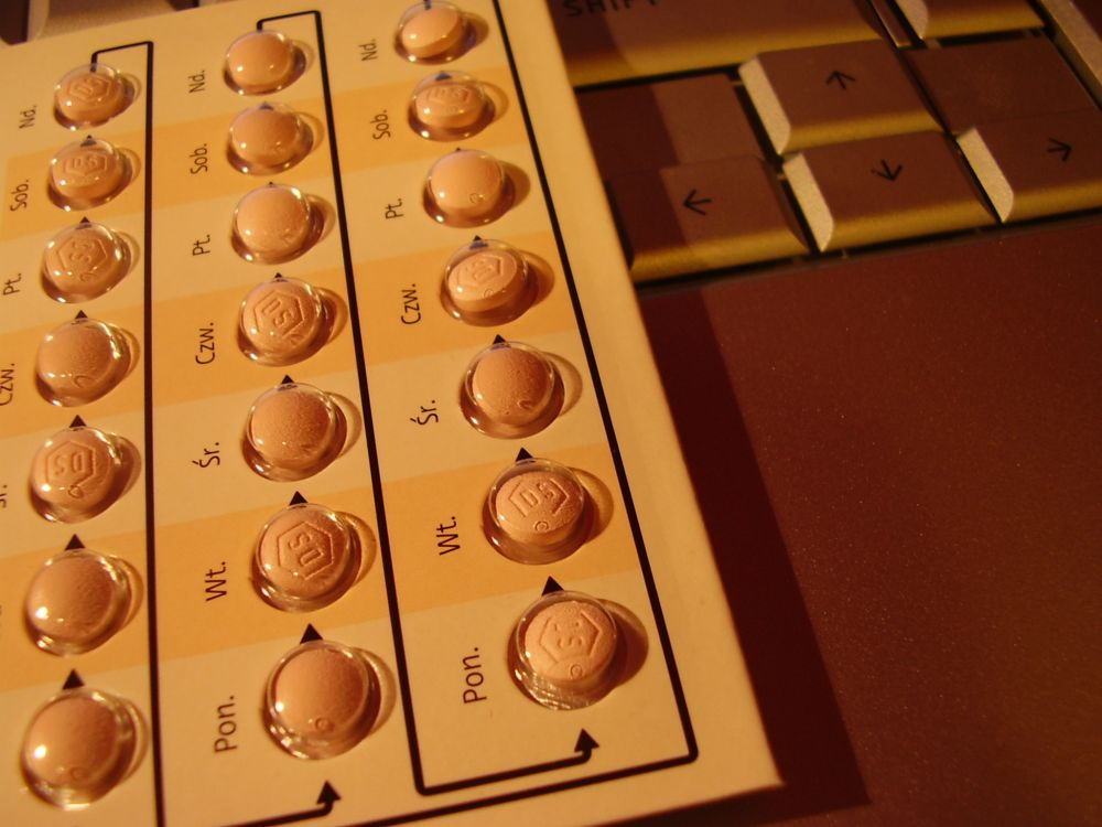 Contraceptive pills